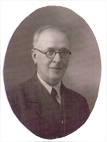 Francisco Forte Faria Torrinha